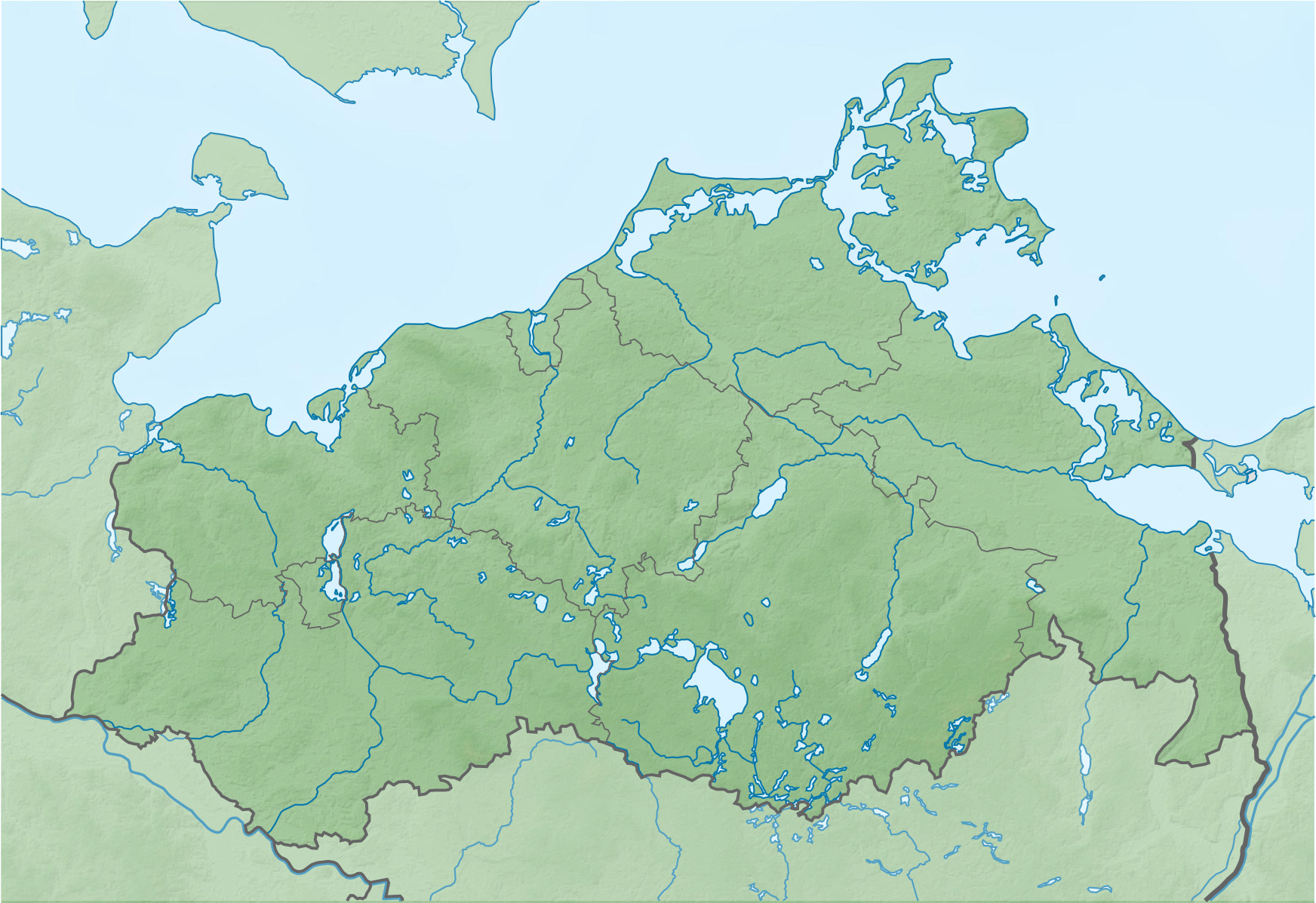 Physical map of Mecklenburg-Vorpommern, Germany Equirectangular projection, N/S stretching 160 %. Geographic limits of the map: N: 54.8° N S: 53.0° N W: 10.4° E E: 14.6° E